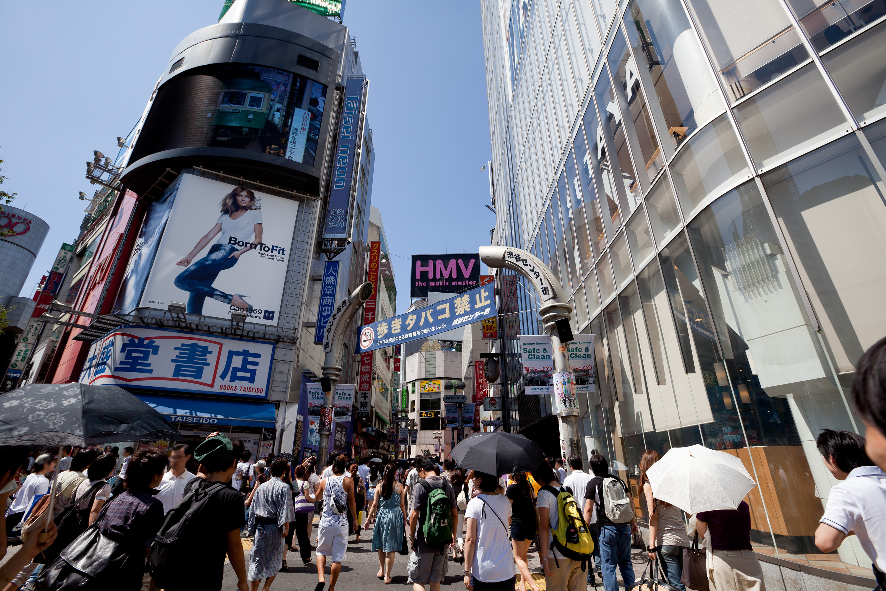 Shibuya Center-Gai